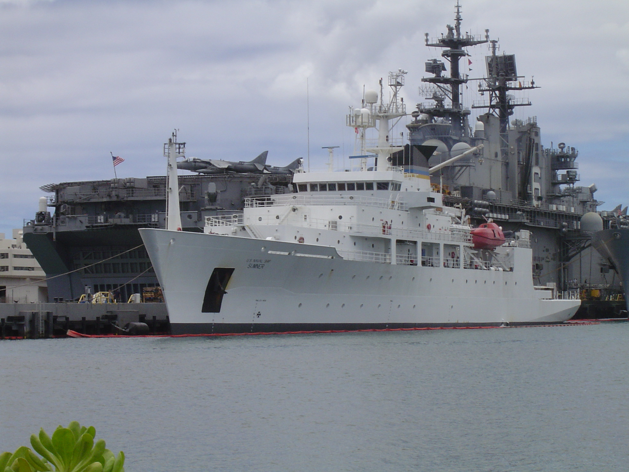 My Photo USNS Sumner (T-AGS-61) in Pearl Harbor with USS Bonhomme Richard (LHD-6) in the background